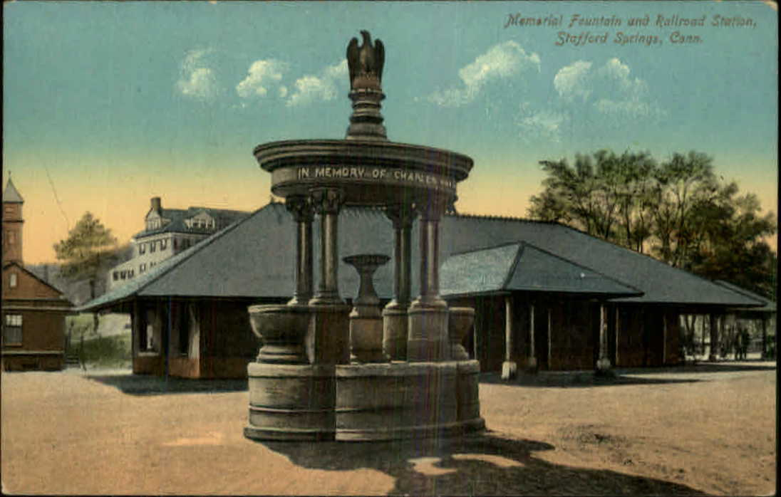 Early divided back postcard of Stafford Springs station